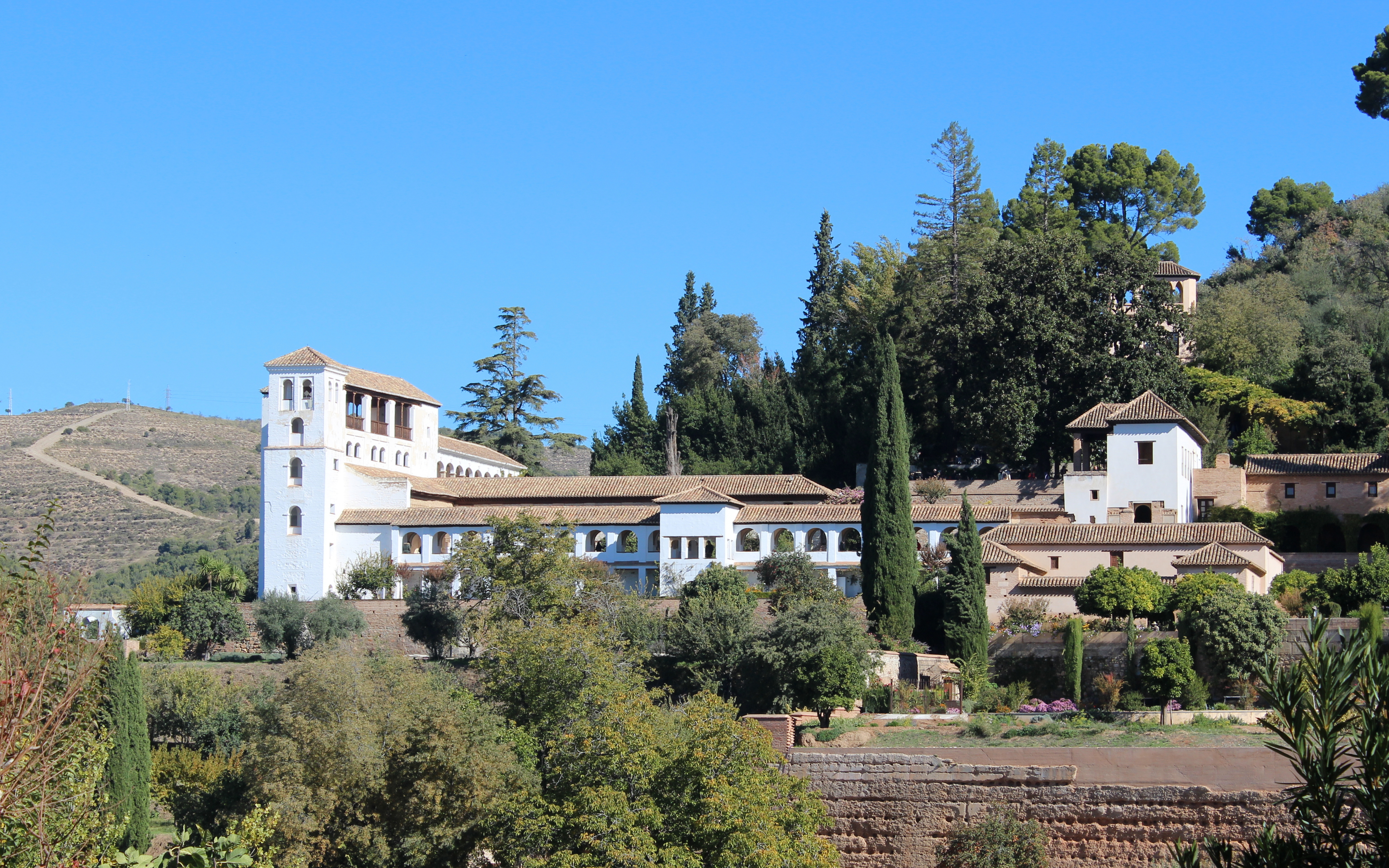 The Generalife, summer palace of the Nasrid rulers of the Emirate of Granada is located about 200 metres from the Alhambra. It was originally built in the 13th and 14th centuries.